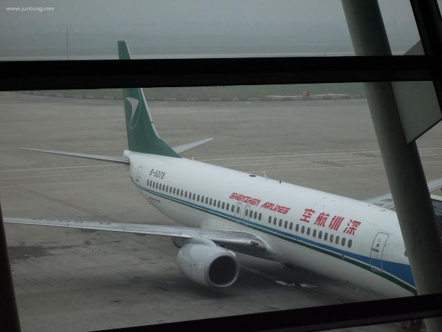 Shenzhen Airlines 737 Aircraft. Taken at Pudong Airport in October 2004.